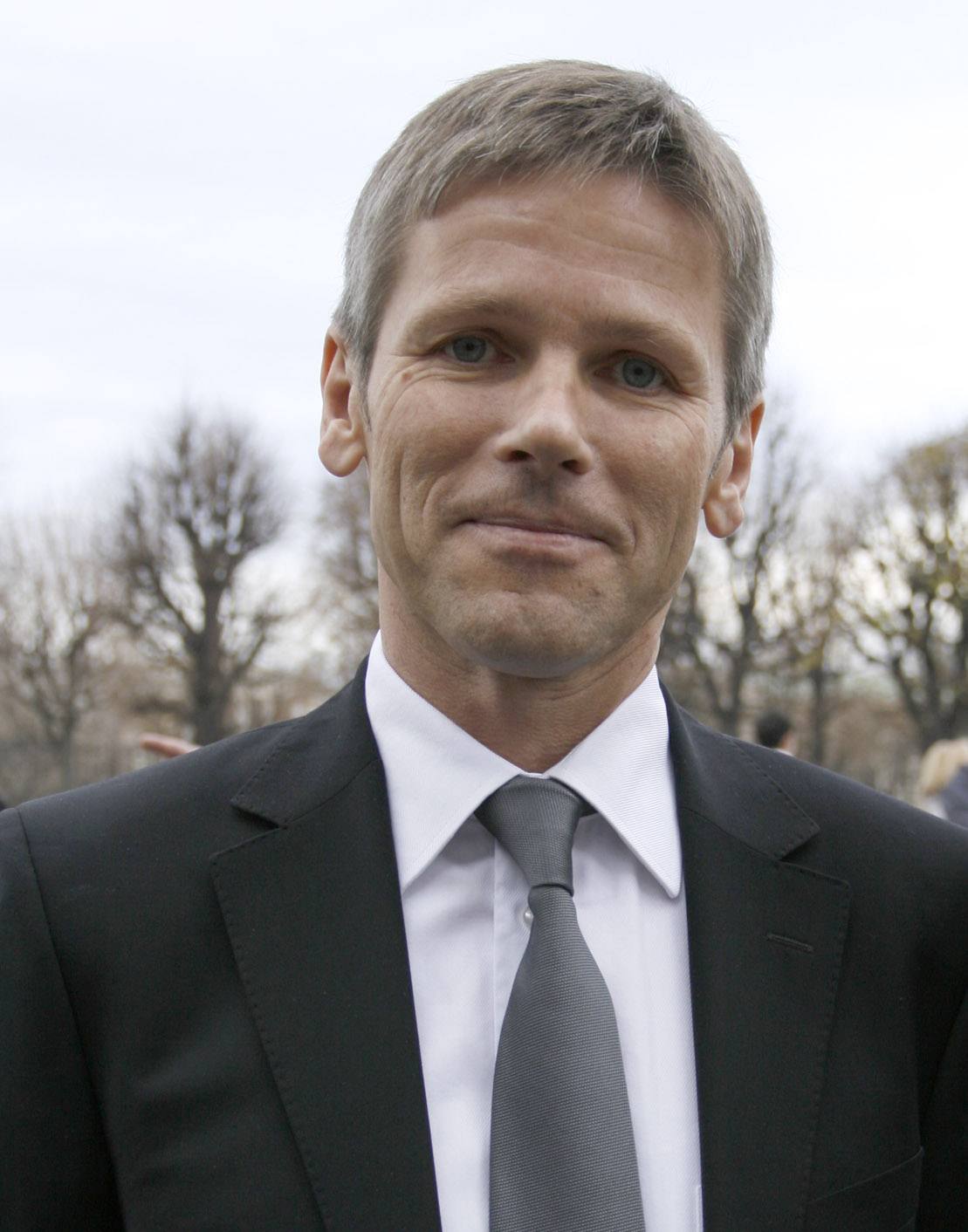 Austrian politician Josef Ostermayer (SPÖ) minutes after being sworn-in as Secretary of State of the Federal Ministry at the Federal Chancellery of Austria (Ballhausplatz, Vienna).